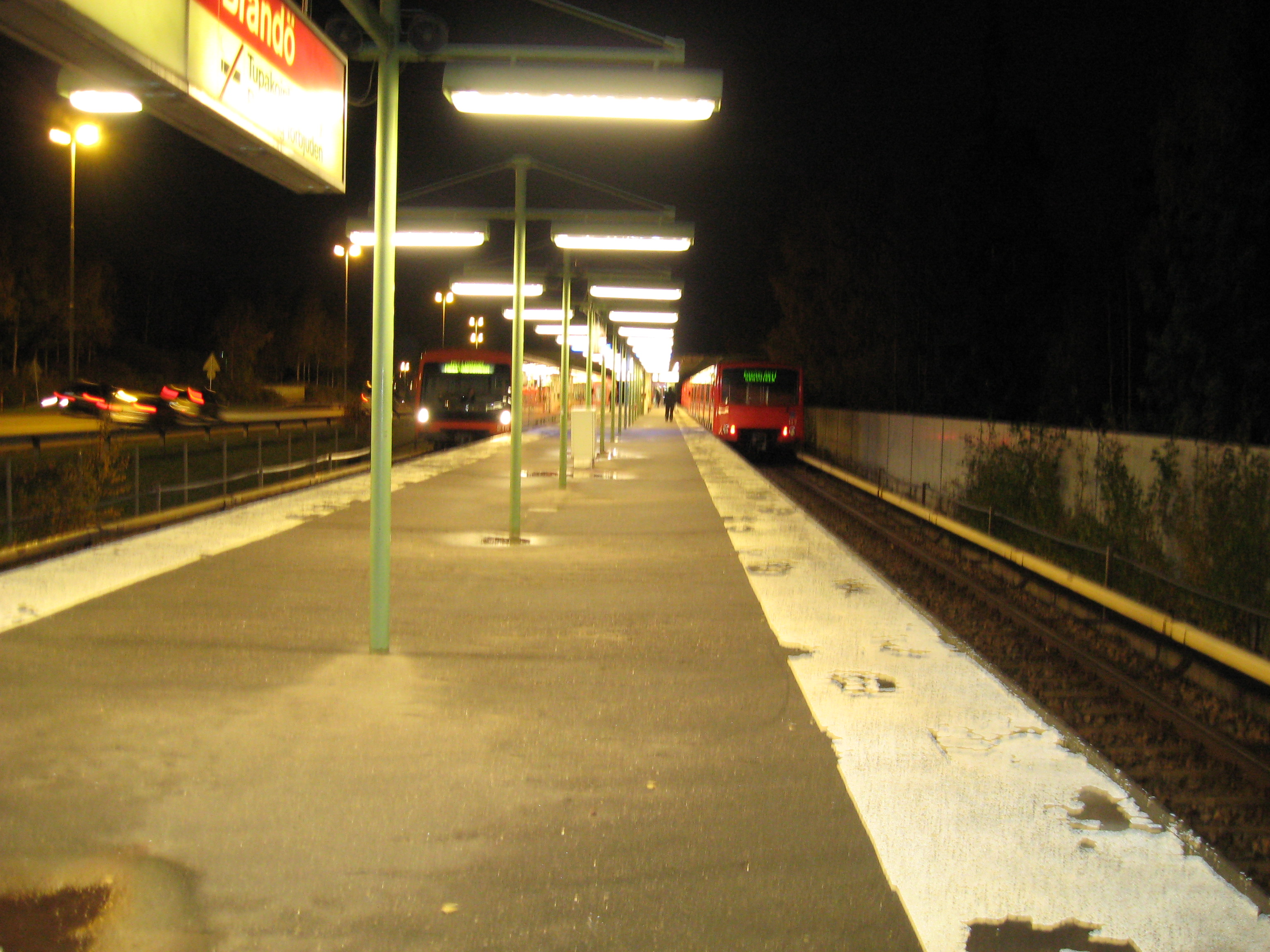 Kulosaari metro station